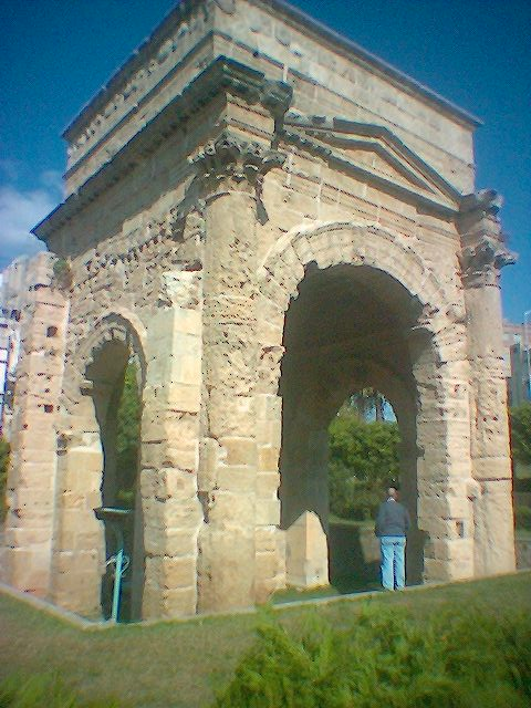 Latakia Victory Arch at downtown, Consider as the city logo Latakia Victory Arch at downtown, Consider as the city logo